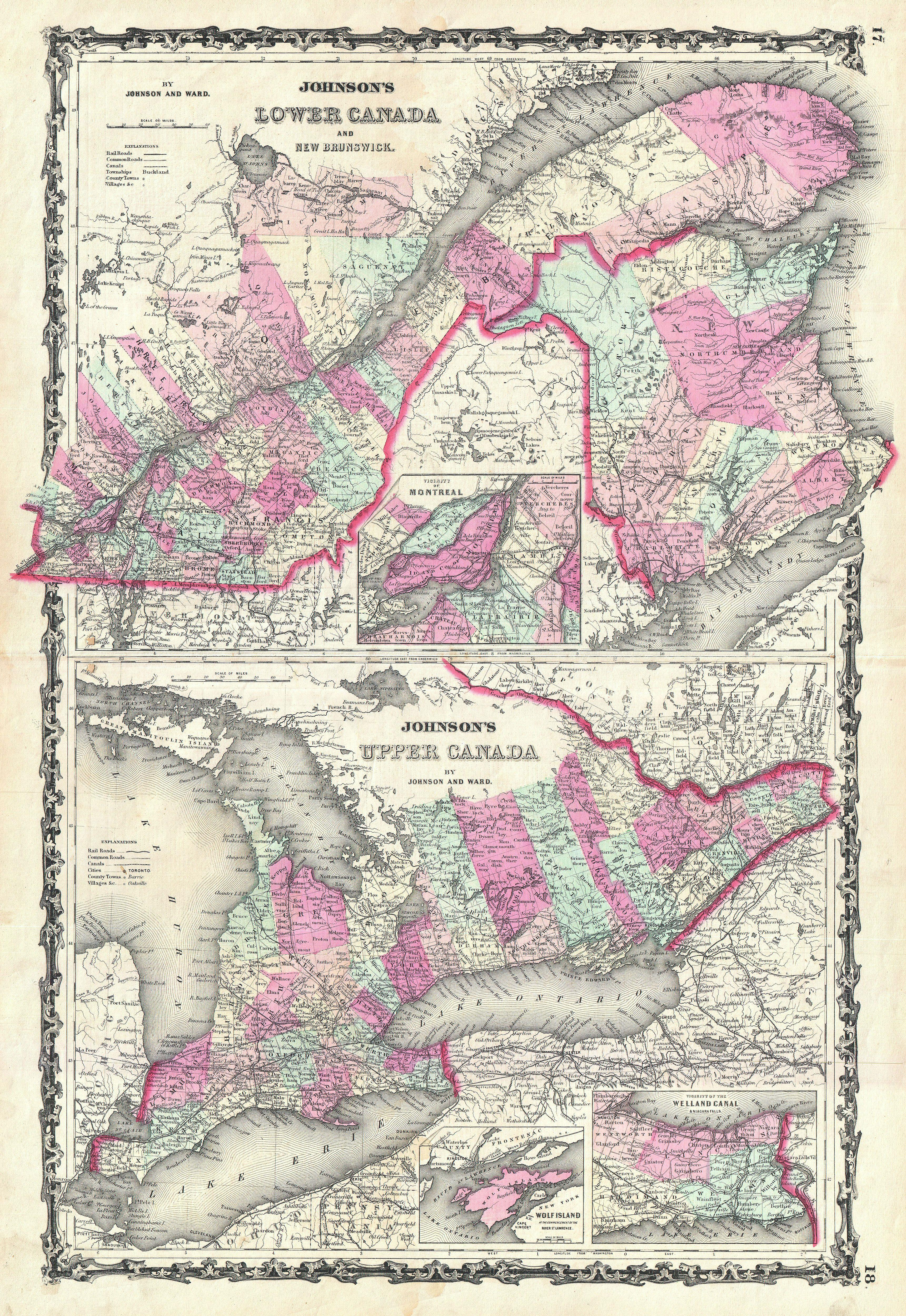 This is A. J. Johnson and Ward’s 1862 map of Upper Canada (Ontario) and Lower Canada (Quebec). Divided into two maps. The upper map consists of the provinces of Quebec and New Brunswick. Features an inset map of the Environs of Montreal. Lower map focuses exclusively on Ontario. Features inset maps of Wolf Island and the Welland Canal. Both maps are color coded by district and detail major roadways, cities, rivers, trains and ferry crossings. Features the strapwork border common to Johnson’s atlas work from 1860 to 1863. Steel plate engraving prepared by A. J. Johnson for publication as page nos. 17-18 in the 1862 edition of his New Illustrated Atlas… This is the first edition of the Johnson’s Atlas to bear the Johnson and Ward imprint.